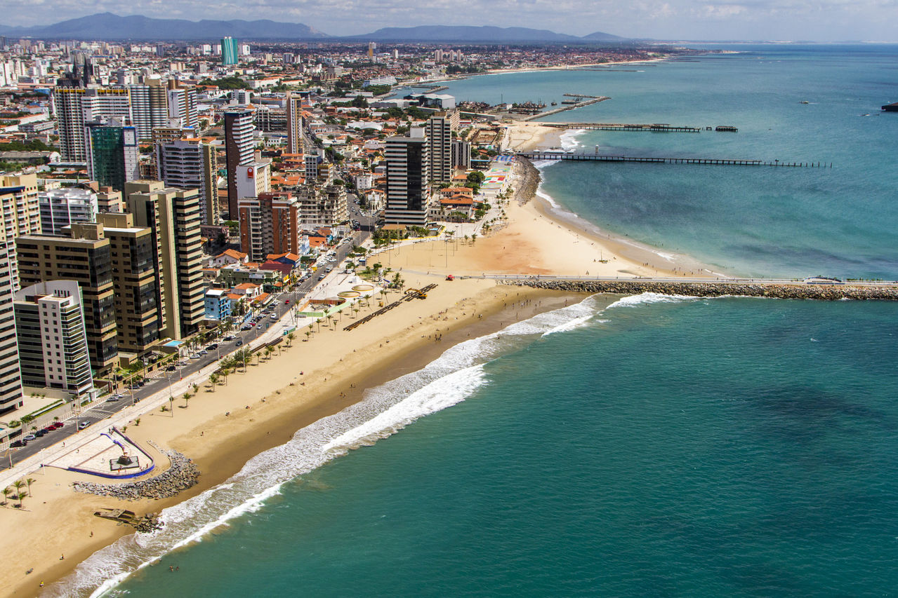 Seashore of Fortaleza